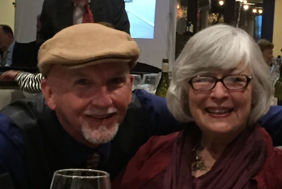 Kyle Keilman and former U.S. Representative Lynn Woolsey in May, 2016